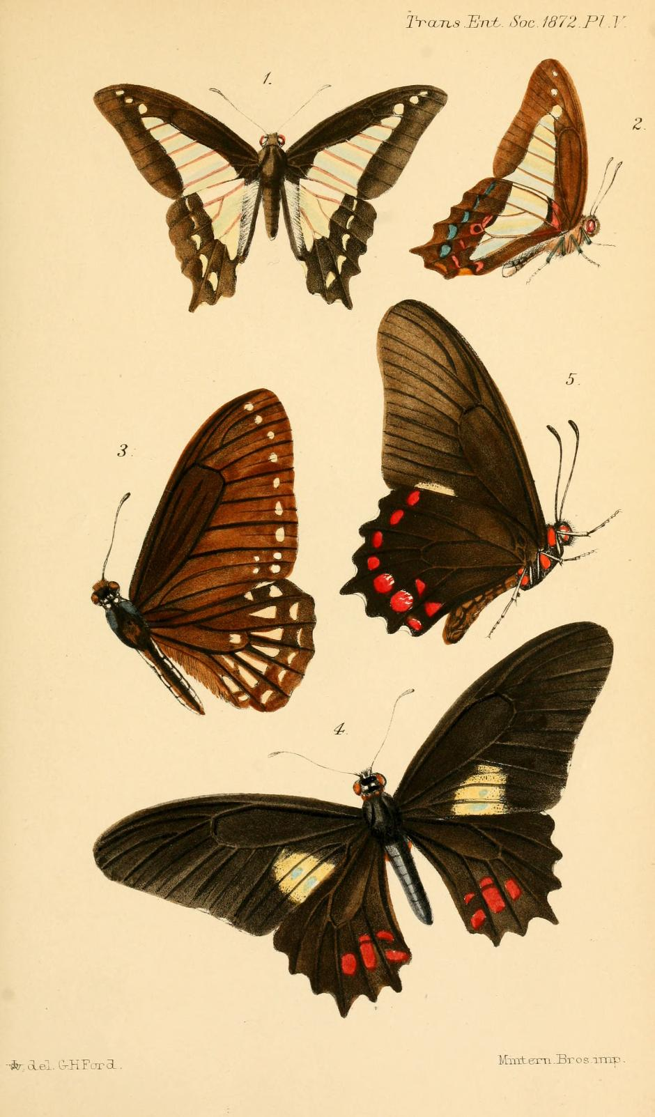 Joseph Obadiah Westwood, 1872 Descriptions of some new Papilionidae Trans. ent. Soc. Lond. 1872 (2) : 85-110, pl. 3-5 Plate V 1, 2 Graphium sarpedon parsedon (Westwood, 1872) 3 Graphium ramaceus (Westwood, 1872) 4, 5 Papilio chiansiades Westwood, 1872